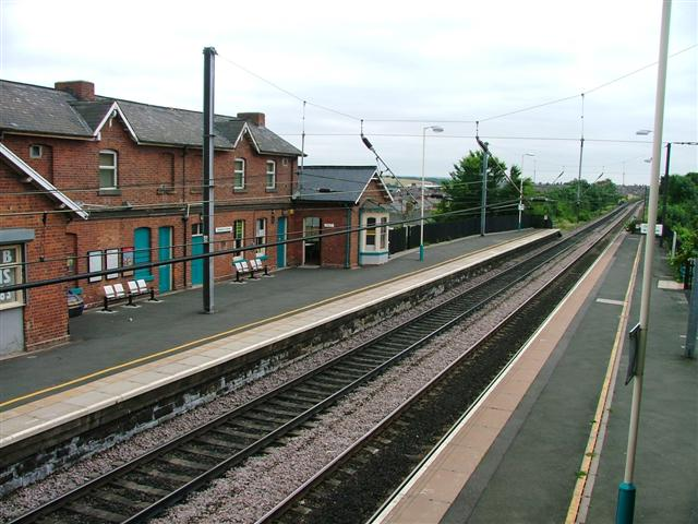 Chester-le-Street Railway Station, looking South